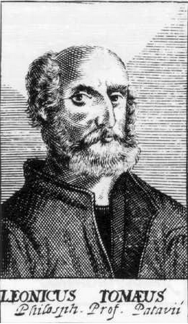 Nicholas Leonicus Thomaeus (1456-1531), albanian philosopher and scholar